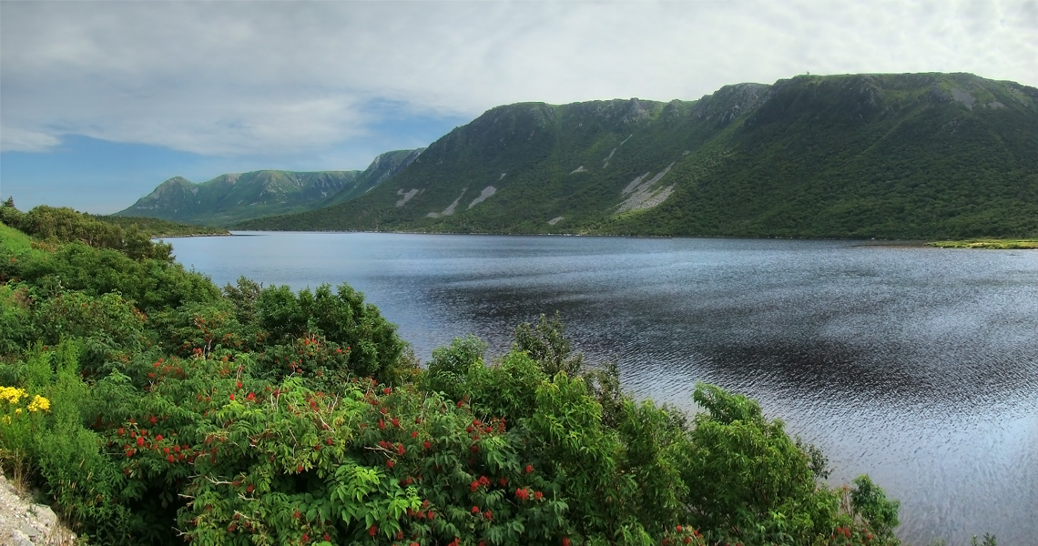 Table Mountain (518m), Western Newfoundland, Canada. In the foreground, Big Pond, about 20km northwest of Channel-Port aux Basques.